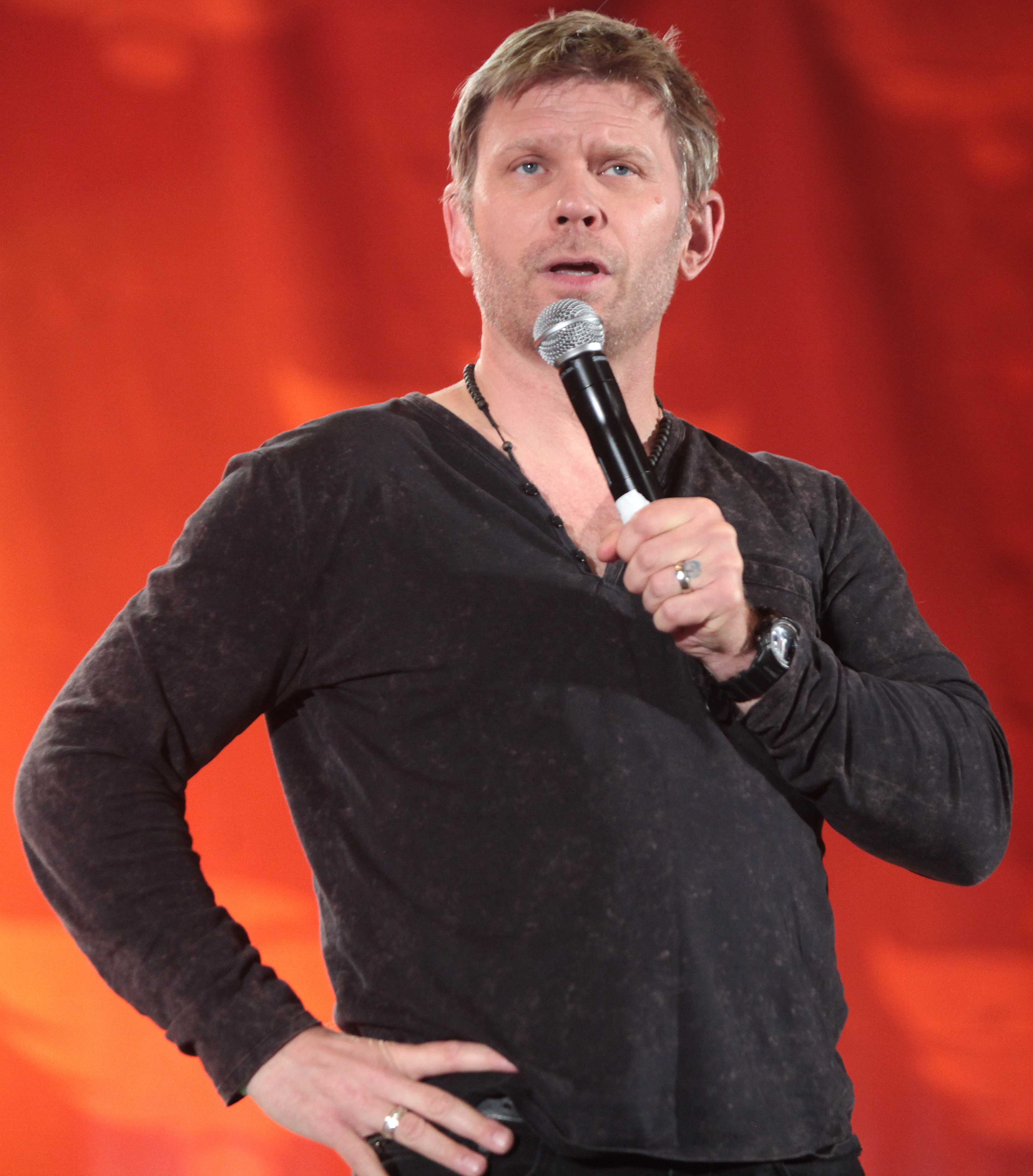 Mark Pellegrino speaking at the 2016 Phoenix Comicon in Phoenix, Arizona.